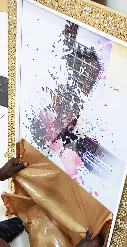 Mixed media painting titled Remember To Rise, created by Ade Abayomi Olufeko